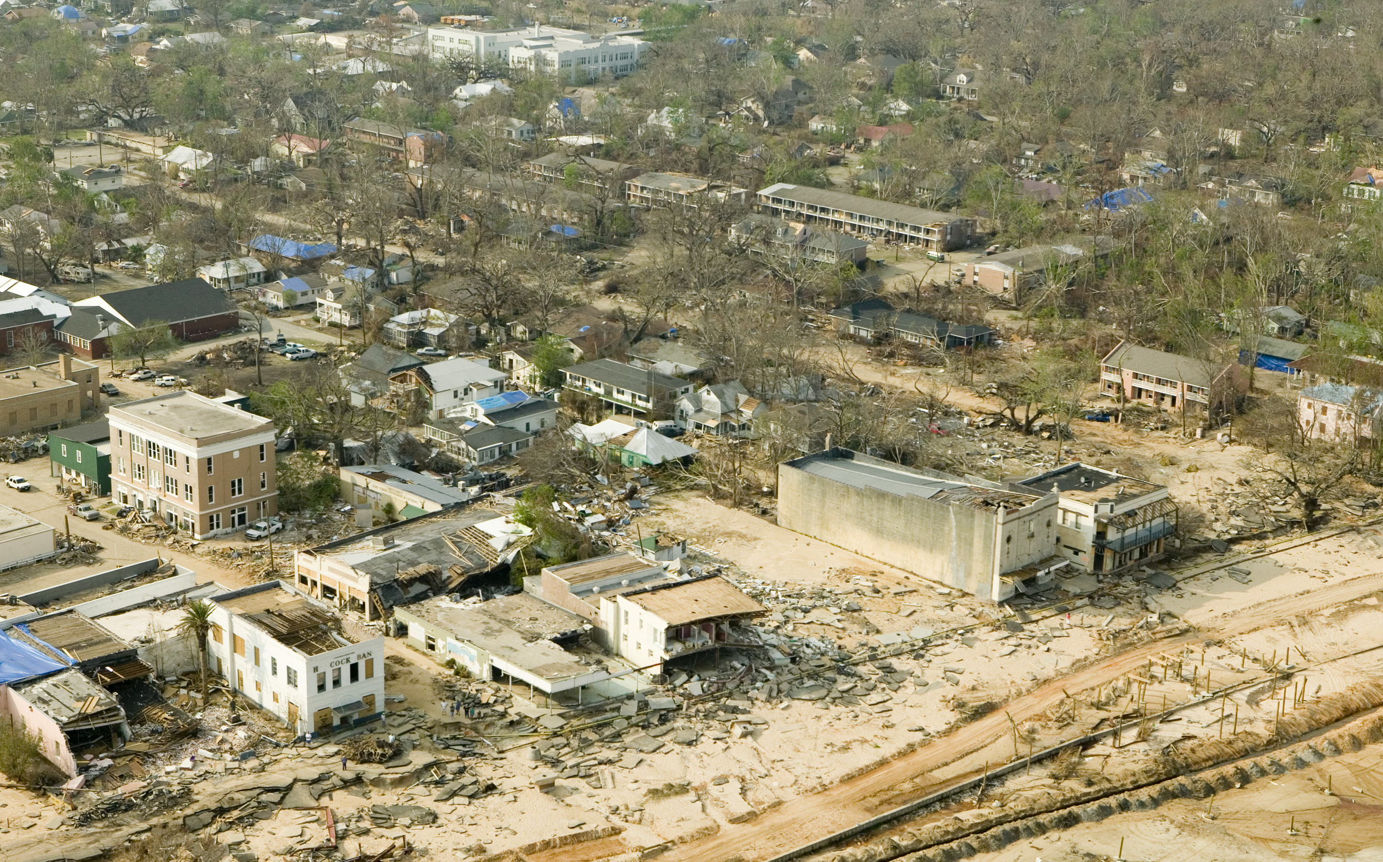 Bay St. Louis, MS., 9/19/2005 -- Aerial of buildings damaged and destroyed by Hurricane Katrina. Andrea Booher/FEMA